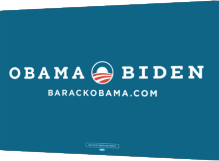 Barack Obama presidential campaign, 2012